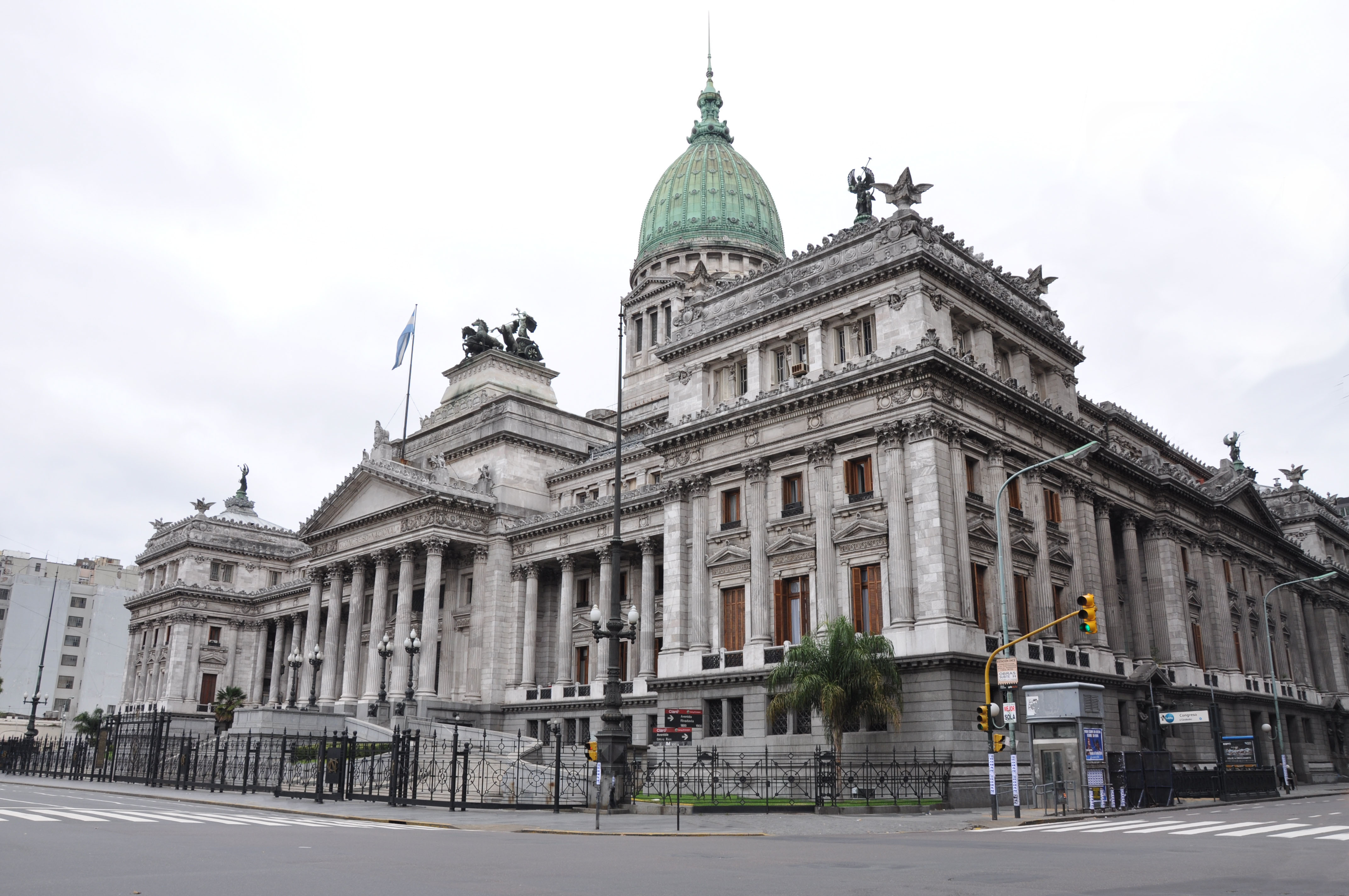 Designed by the Italian architect Vittorio Meano and completed by Argentine architect Julio Dormal, the building was under construction between 1898 and 1906. Inaugurated that year, its aesthetic details were not completed until 1946. The quadriga atop the entrance is the work of sculptor Victor de Pol; local sculptor Lola Mora graced the interior halls and exterior alike with numerous allegorical bronzes. As time went by, the building proved too small for its purpose, and in 1974 the construction of the Annex, which now holds the Deputies' offices, was started. Congressional Plaza was created facing the building by French Argentine urbanist Charles Thays and inaugurated in 1910. Popular among tourists, the plaza is also a preferred location for protesters and those who want to voice their opinion about Congress' activities